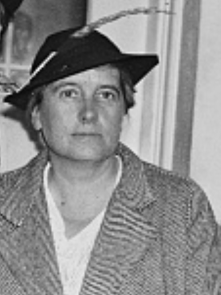 Gertrude C. Bussey taken from from group photo.